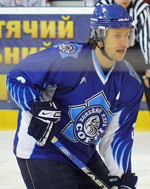 Defender Serhiy Klimentiev #3 of the Sokil Kyiv stands during the Belarusian Extraliga game against Junost Minsk at Terminal on March 16, 2010 in Brovary, Ukraine. Junost Minsk won the game 1-0.